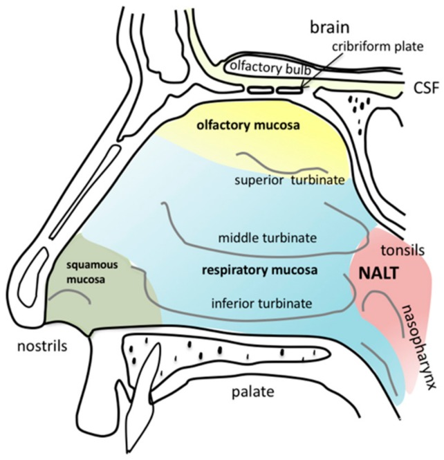 Anatomy of the human nasal cavity. Squamous mucosa (green) is located at the frontal parts of the nasal vestibules. The three turbinates (inferior, middle and superior) humidify and warm the inhaled air. The area covered predominantly with respiratory mucosa is labelled in blue. The olfactory mucosa (yellow) is located next to the cribriform plate at the skull base down to the superior turbinate. Nasally transmitted substances can cross the cribriform plate via different pathways to enter the brain. Nasopharynx-associated lymphatic tissue (NALT) is located in close proximity to the tonsils at the nasopharynx.